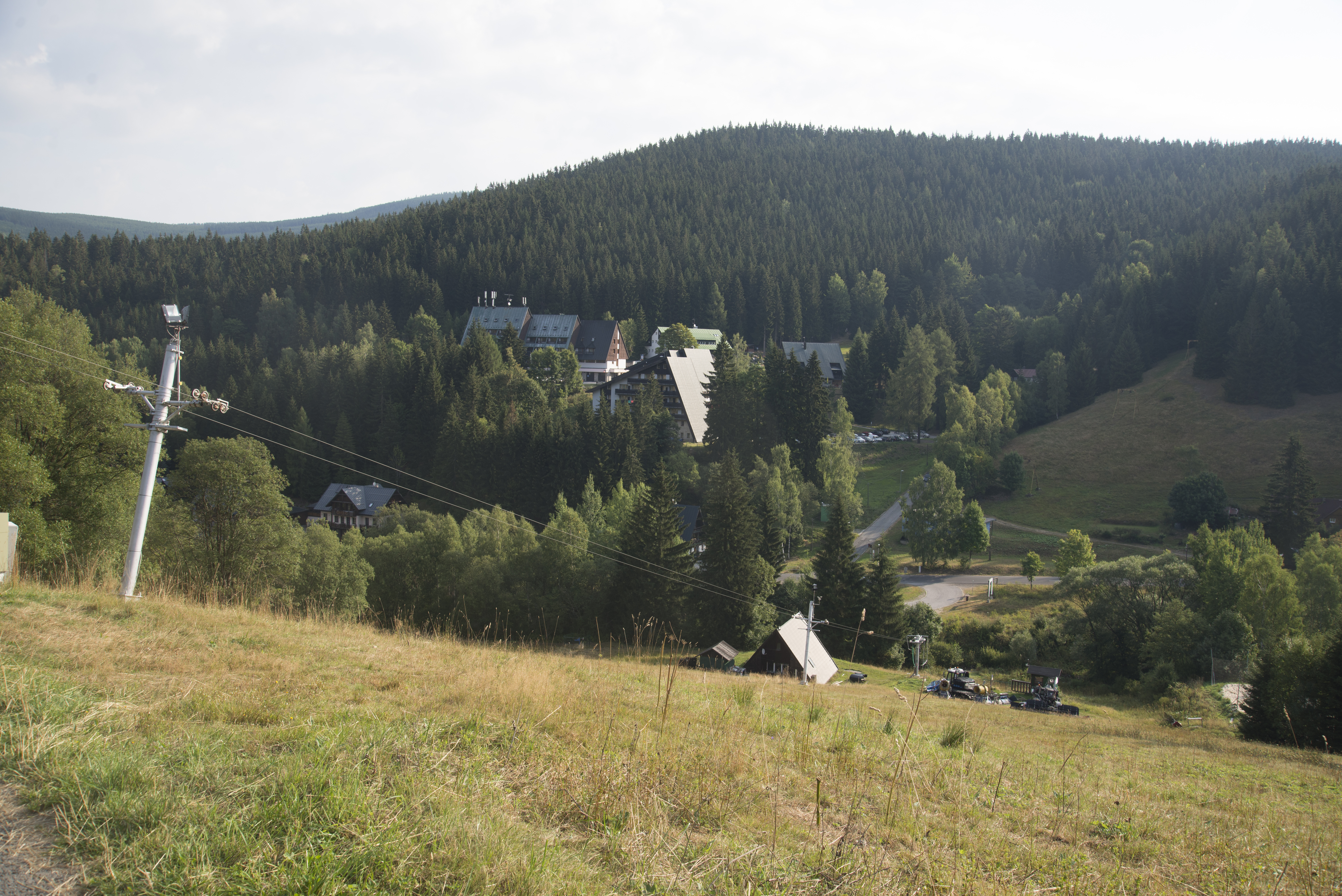 Ryžoviště (in German Seifenbach), village, part of the city Harrachov, Semily district, Liberec region, Czechia